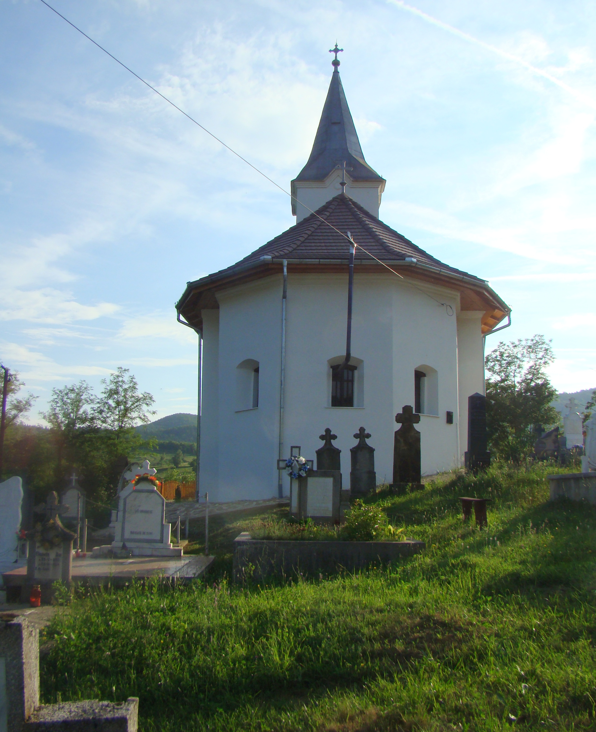 Church of the Annunciation in Trestia, Hunedoara county, Romania